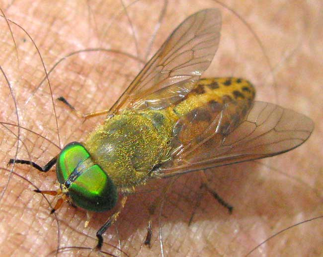 A horsefly of the genus Tabanus (note the green eyes).